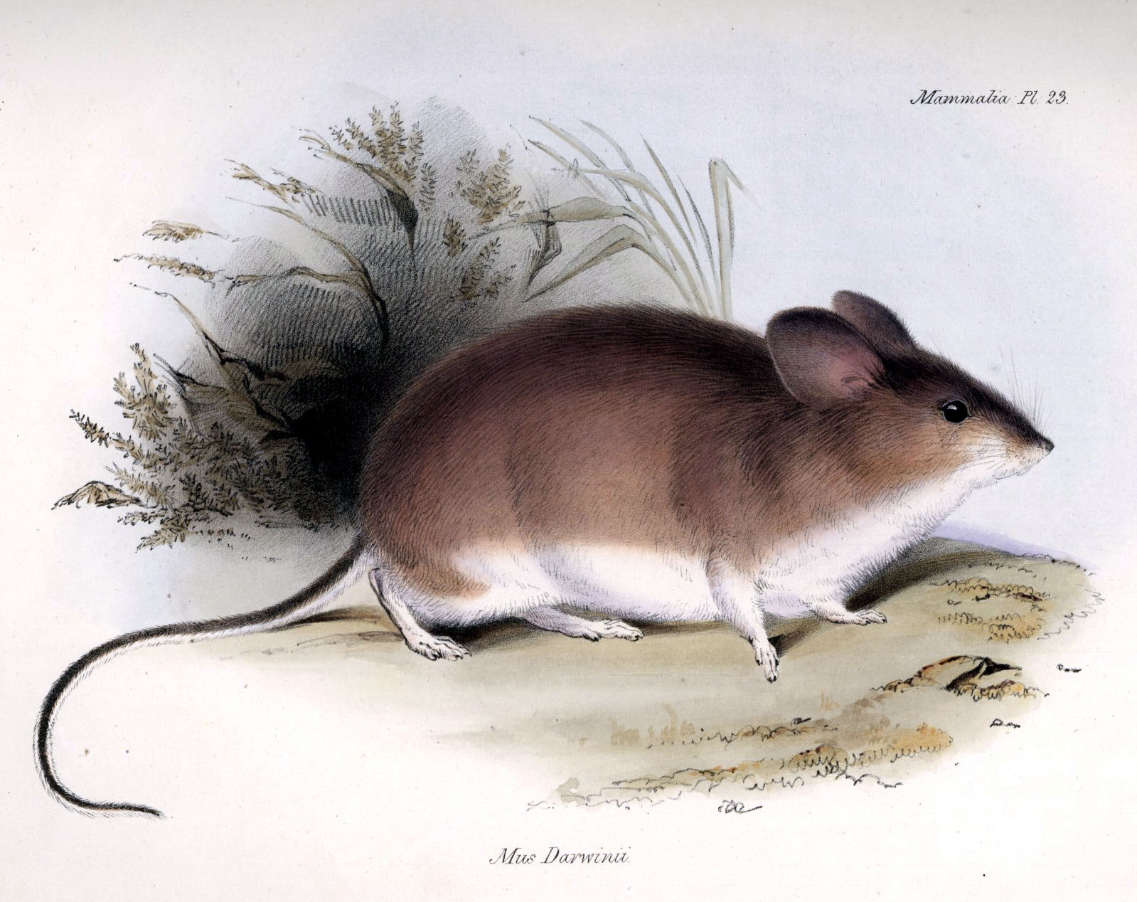 The Darwin's Leaf-eared Mouse (Phyllotis darwini) is a species of rodent in the Cricetidae family. It is found in Argentina, Bolivia, Chile, and Peru. Image from Plate XXIII. from George Robert Waterhouse Mammalia